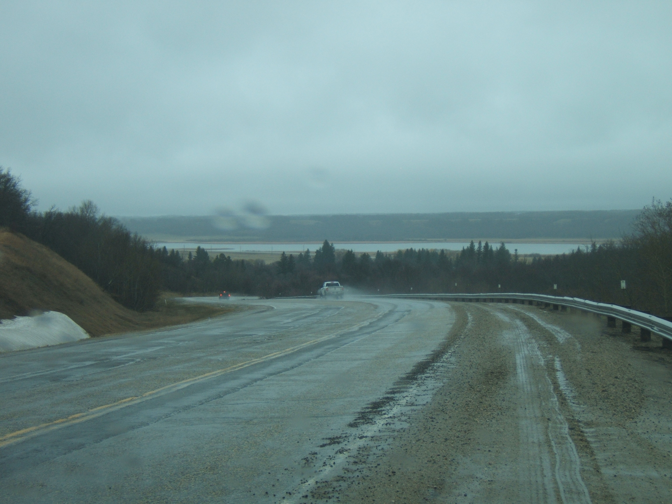 Entering Ninette, Manitoba, Canada from Highway. Taken May 7th, 2014.